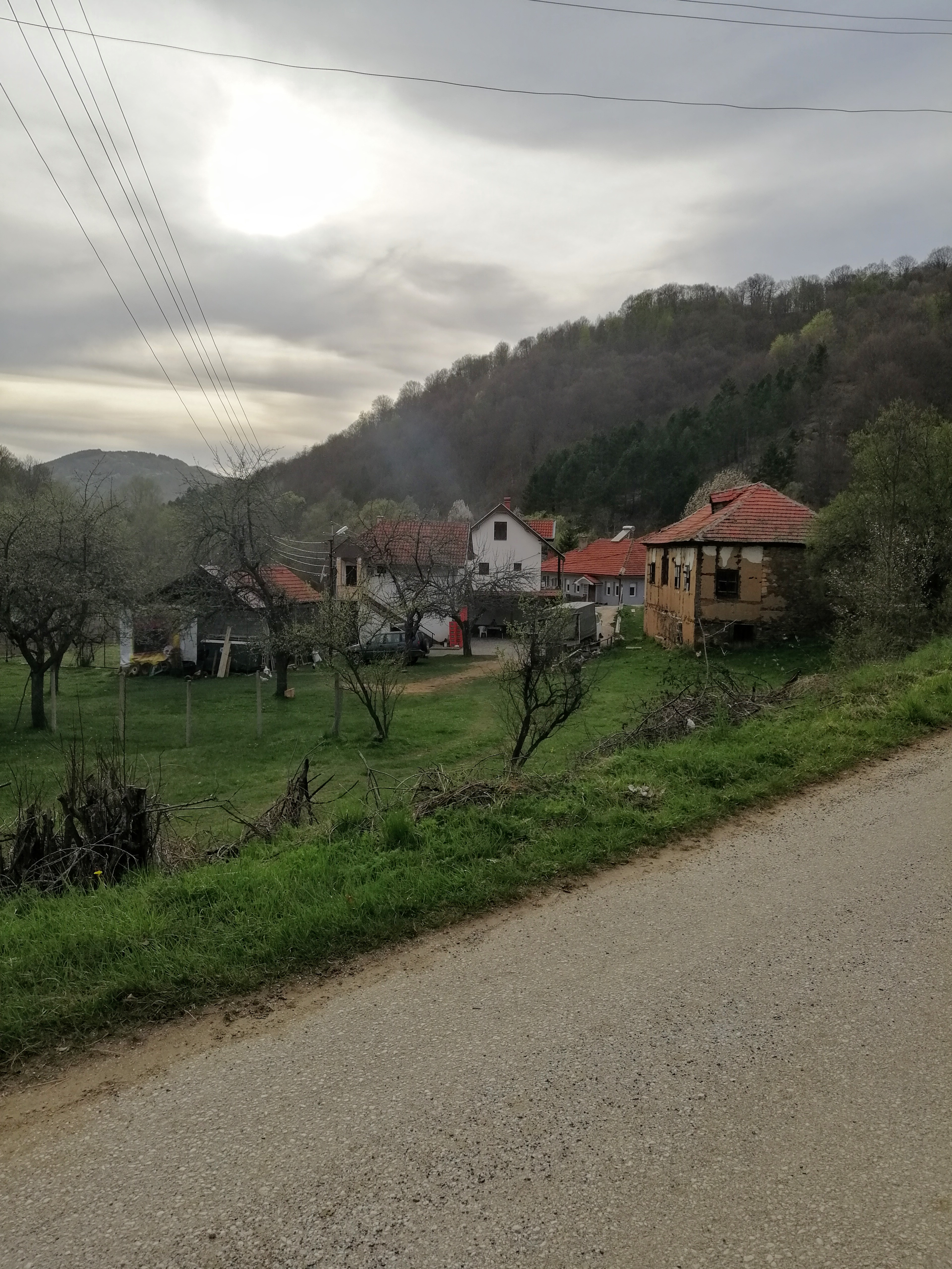 View of the village Ogut